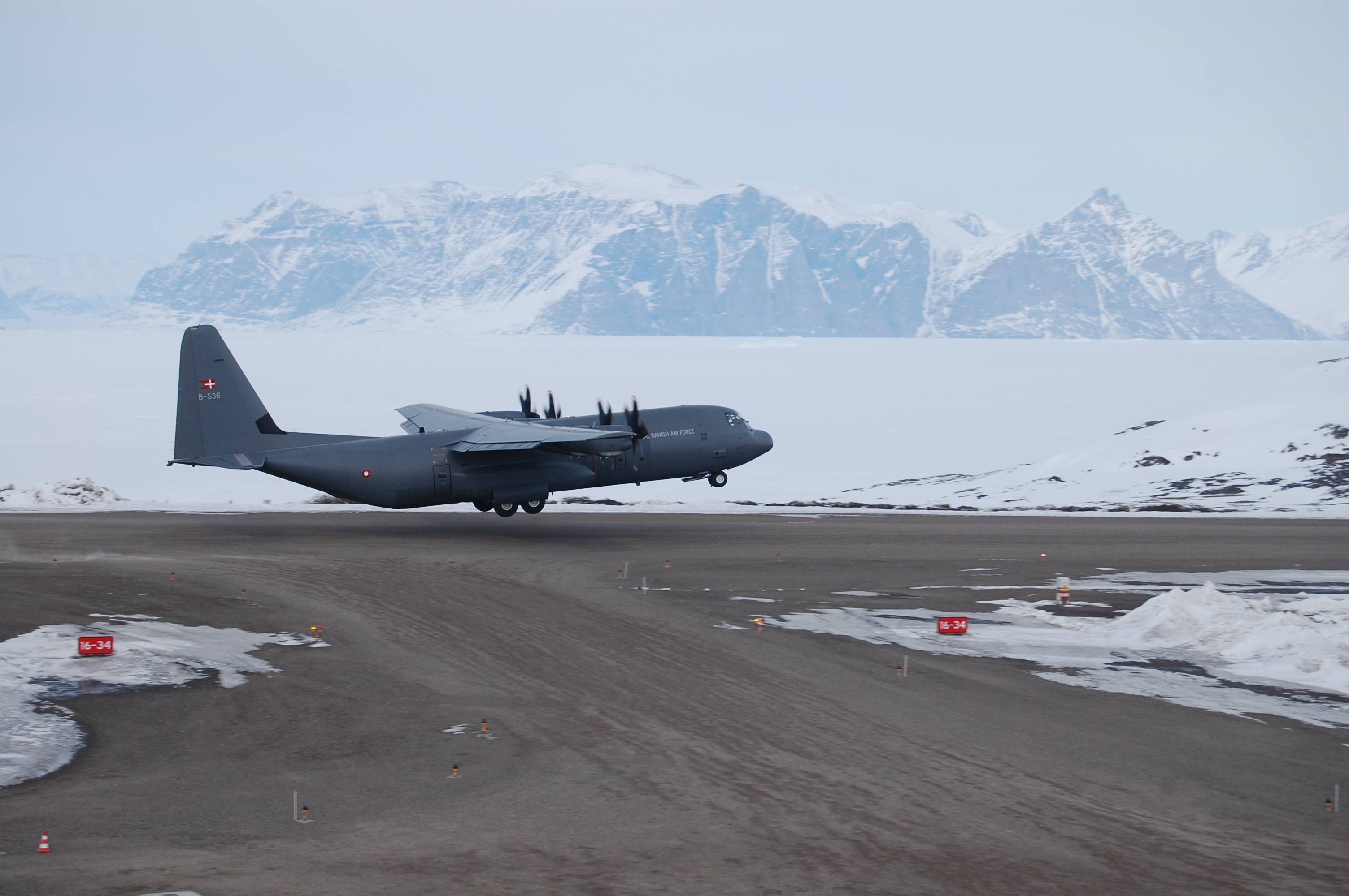 Royal Danish Air Force B-536, C-130J, at Qaarsut Airport, GreenlandDansk: Flyvevåbnet B-536, C130J letter fra Qaarsut lufthavn på Grønland